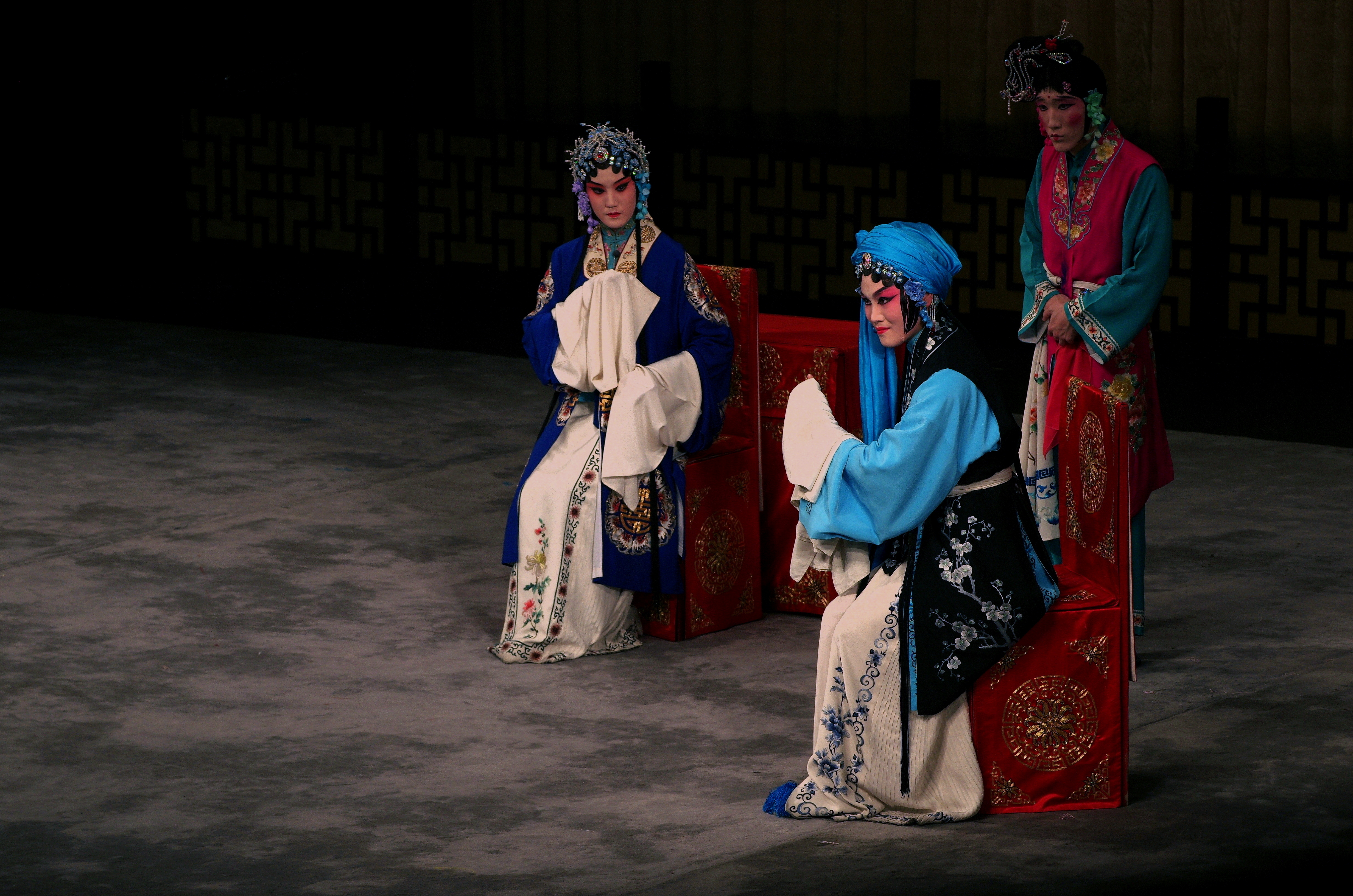 马上就要唱起了: 这才是人生难预料，不想团圆在今朝。 回首繁华如梦渺，残生一线付惊涛。 莫在痴嗔休啼笑，教导器儿多勤劳。 今日相逢得此报，愧我当初赠木桃。 This is difficult to predict in life, do not want the reunion in the present. Looking back downtown vague dream, to pay the remaining years Jingtao line. Mo crazy angry at Hugh Lovers, teach children is more industrious. Meet today was this report, ashamed that I had a gift peach wood. 这是很难预测的生活，不希望在目前的团聚。 回首市中心模糊的梦想，支付剩余的岁月惊涛线。 莫疯狂的愤怒休恋人，教孩子更加勤奋。 满足当今是这份报告中，惭愧，我有一个礼物桃木纹。